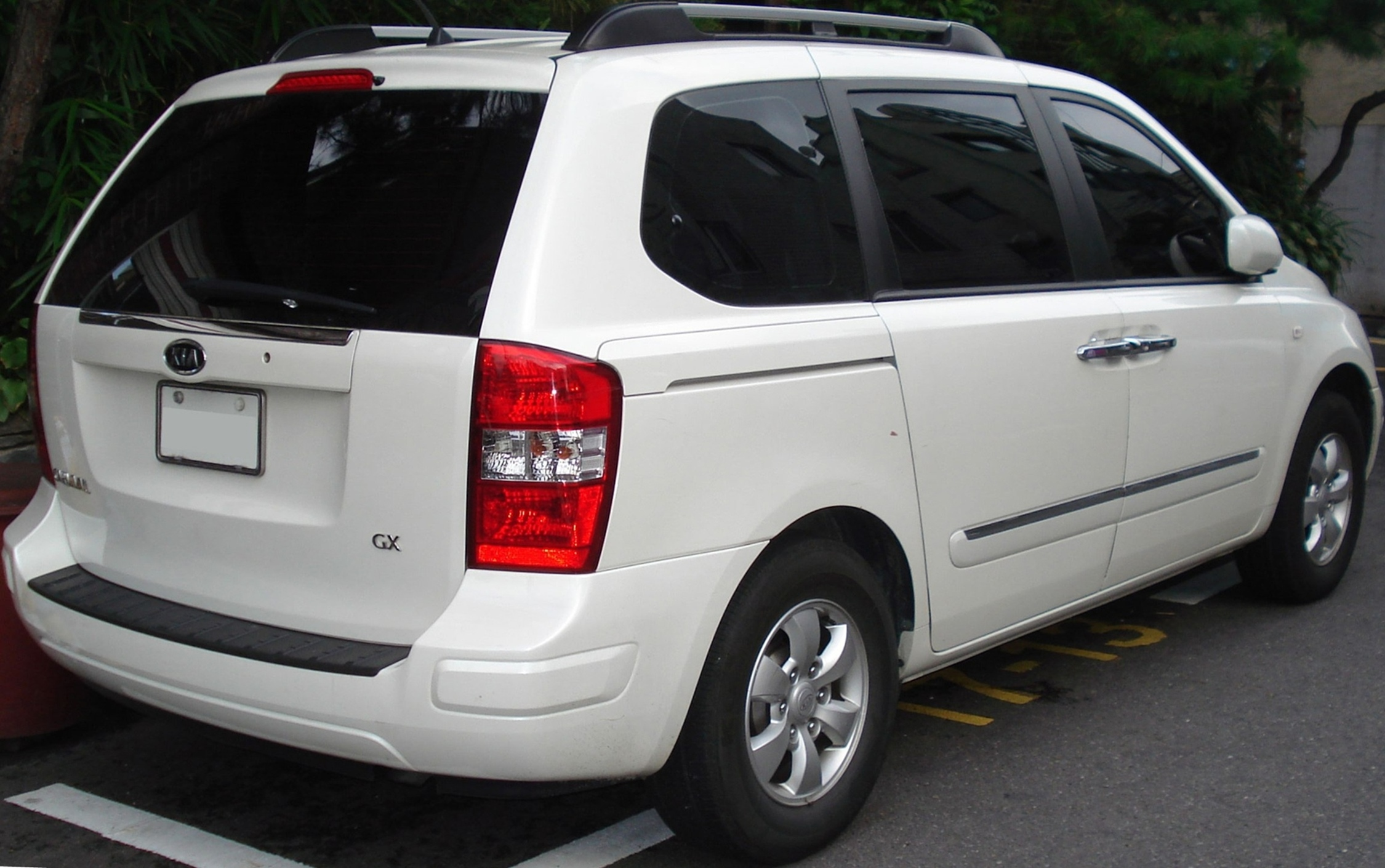 Kia New Carnival